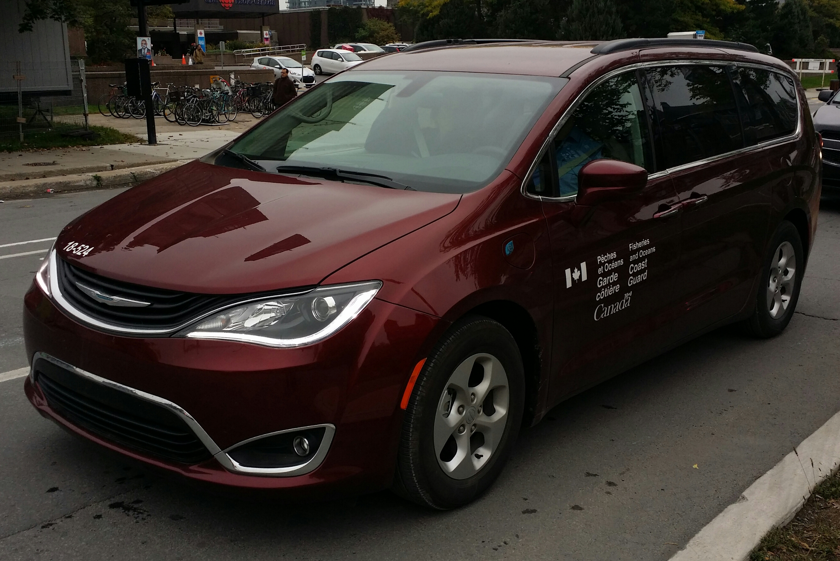 2017-present Chrysler Pacifica Hybrid photographed in Montréal, Québec, Canada.